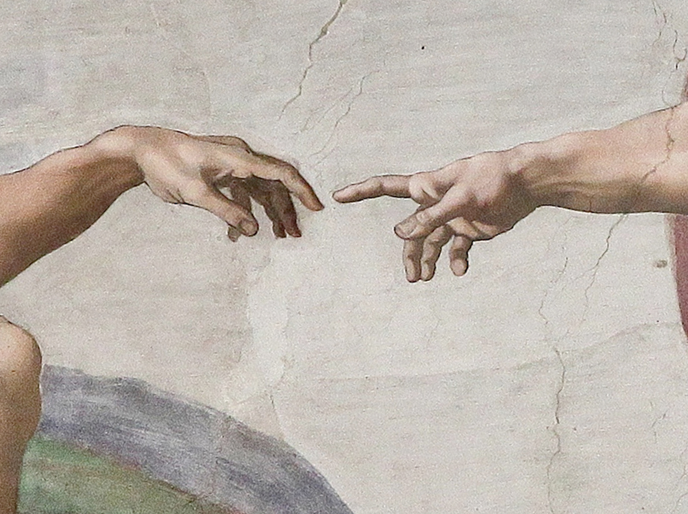 Creation of Adam, hands in detail